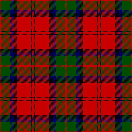 MacDuff tartan, as published in the Vestiarium Scoticum. Modern thread count: R6 G32 B12 Bk12 R48 Bk4 R8.